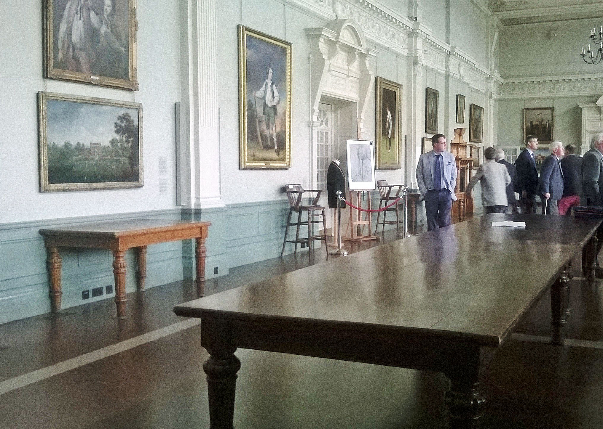 My friend Alan in the Long Room at Lord's cricket ground during the Middlesex v Notts match in April. The portrait to his left is of the late Richie Benaud.